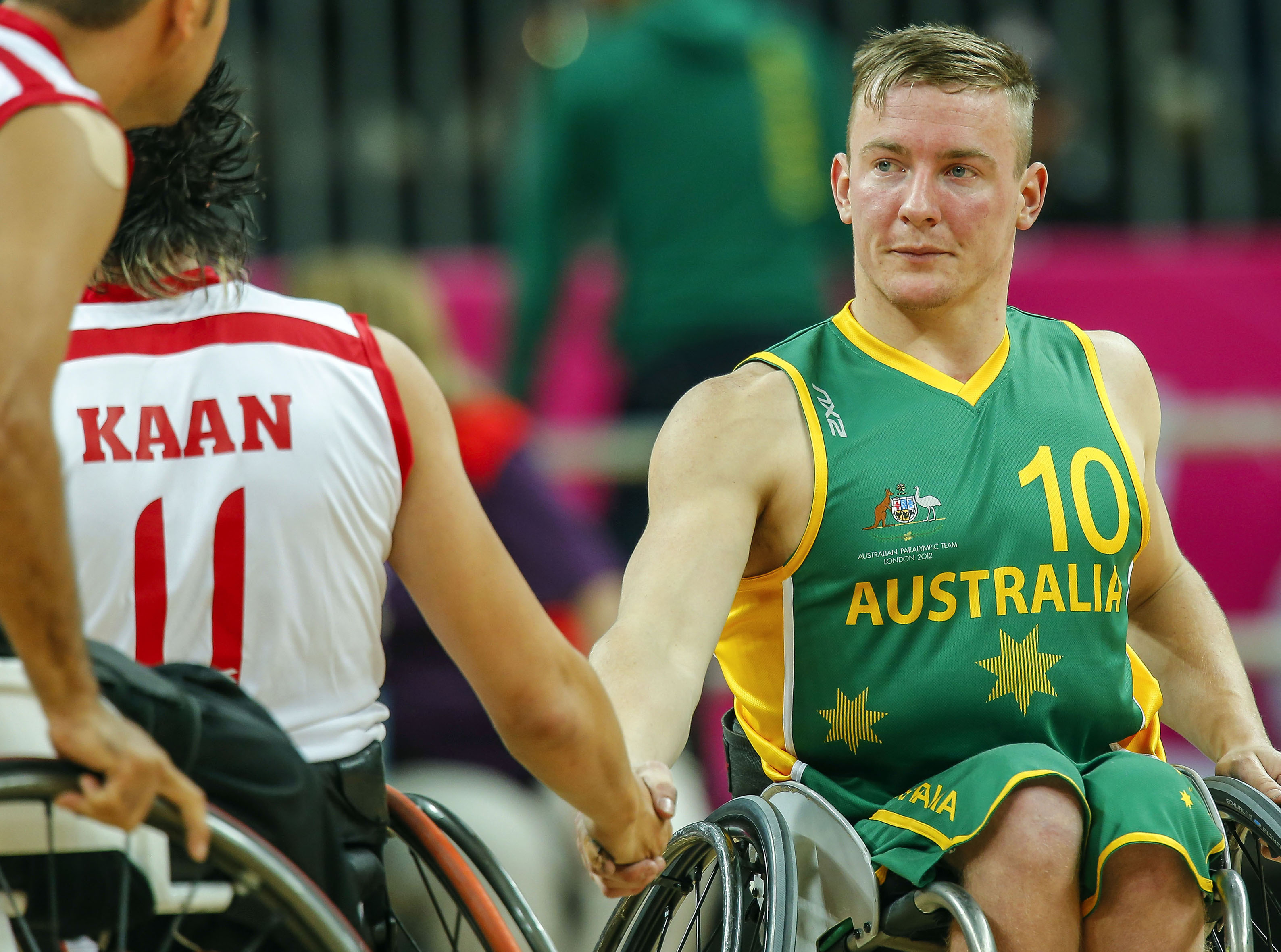 Photograph of Australian Paralympic team member Jannik Blair at the 2012 Summer Paralympic Games in London